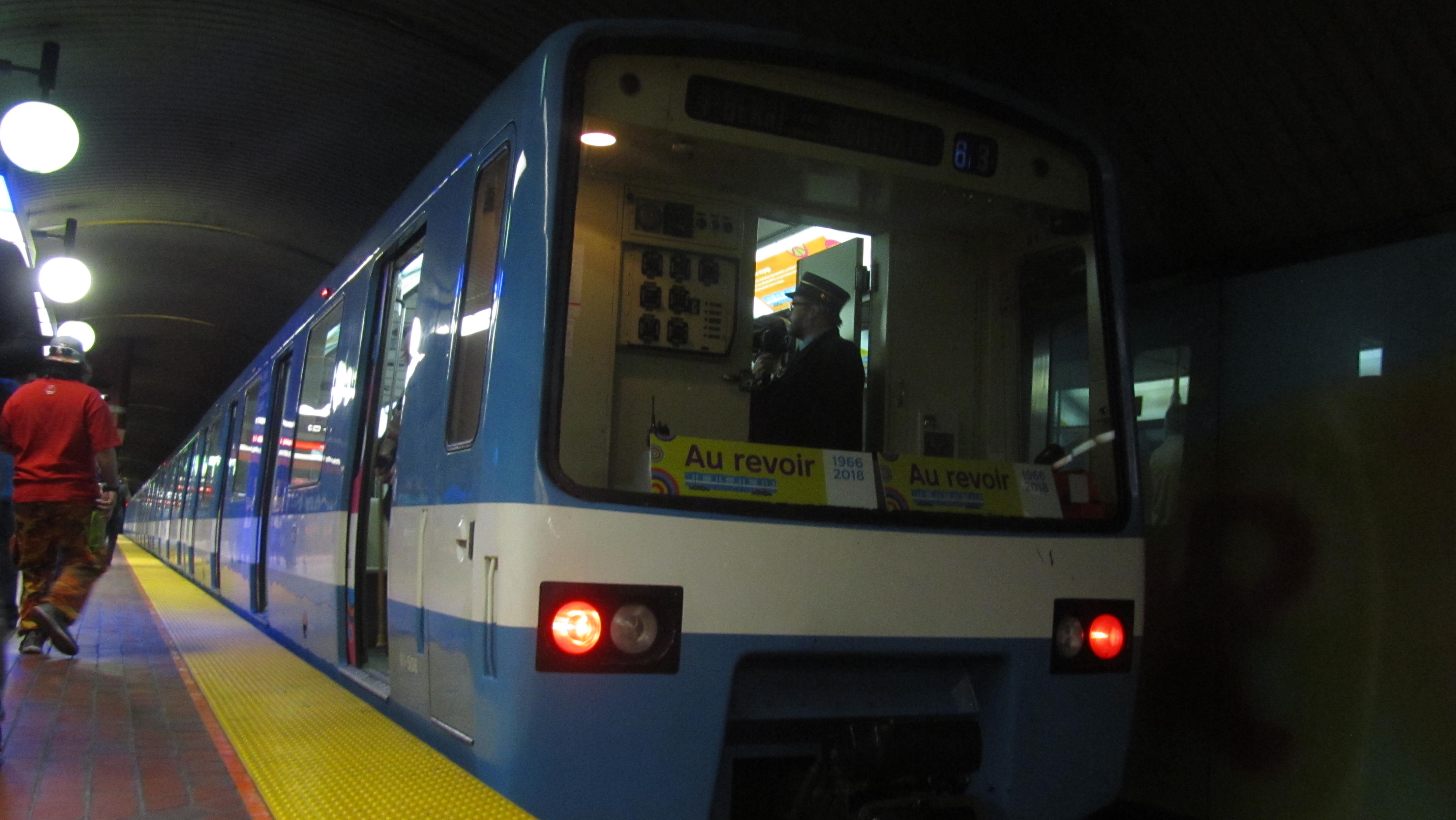 This was taken on the last day of its service at station Snowdon heading towards the end tracks to be later diverged on to the other tracks heading towards station Saint-Michel.